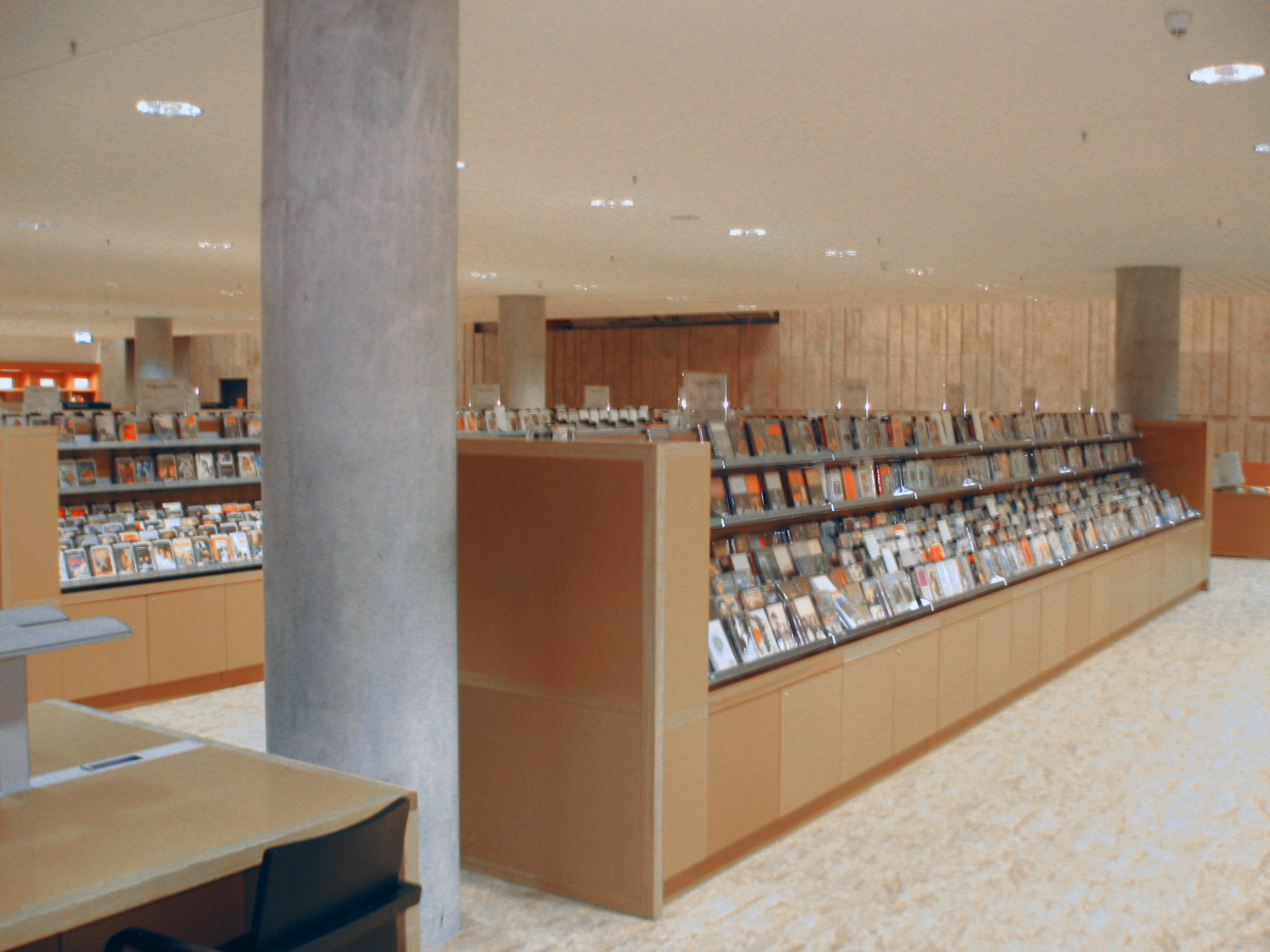 Indoor area of the SLUB